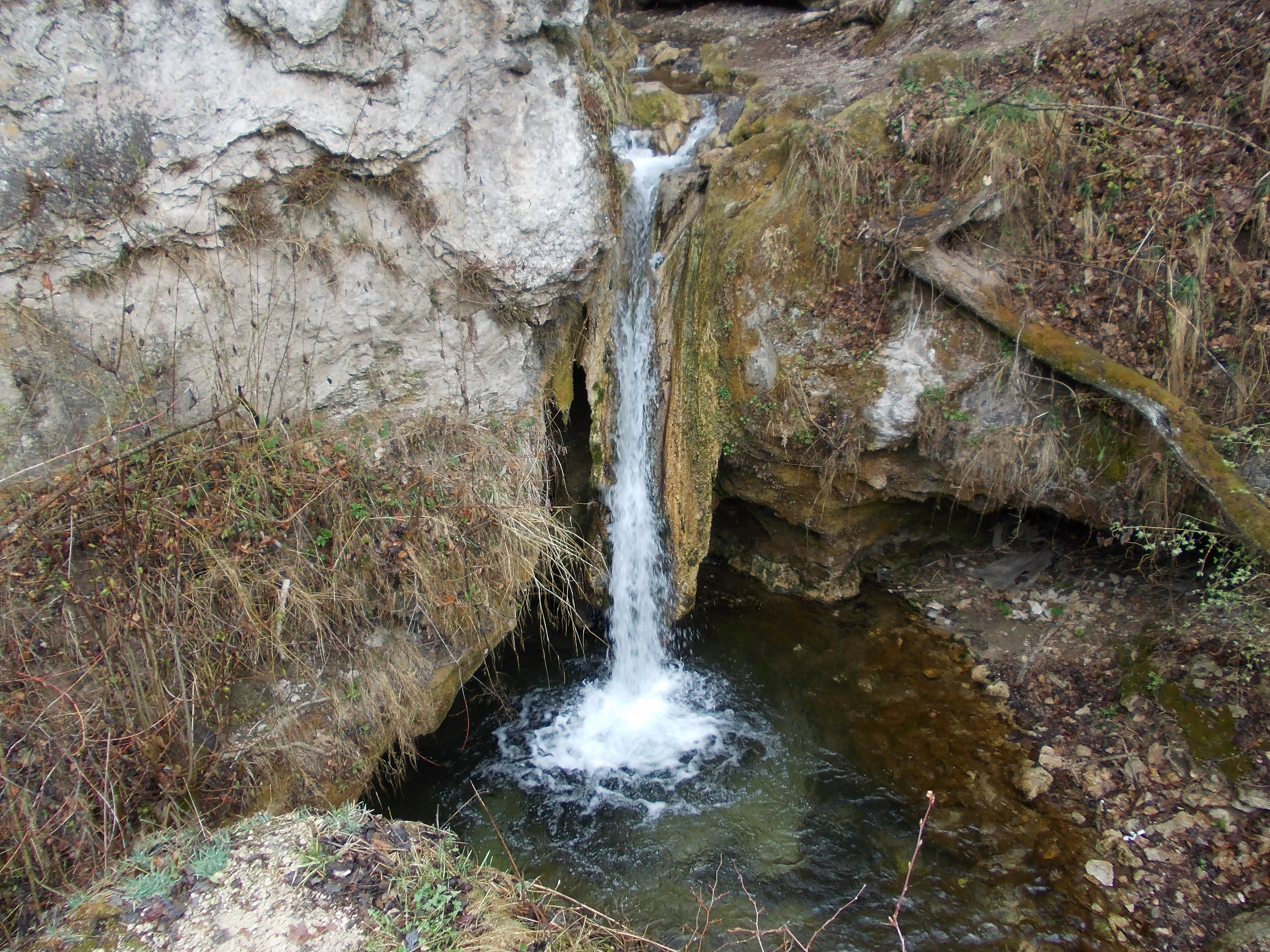 Haj waterfall, near village Haj